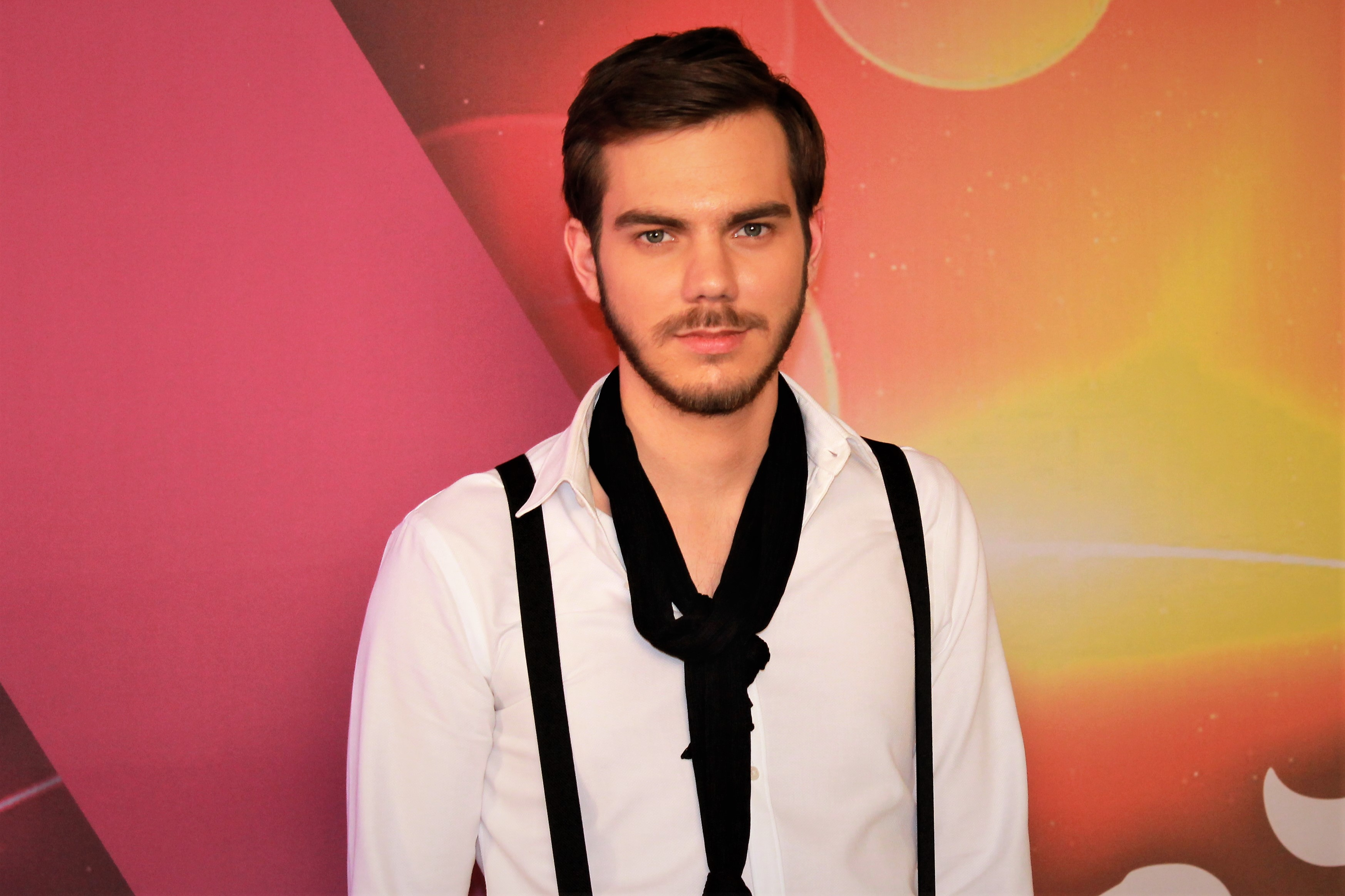 A Dal 2018 participant: Gergely Dánielfy